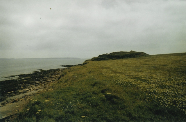 Northfield Broch on Burray, Orkneys, Scotland